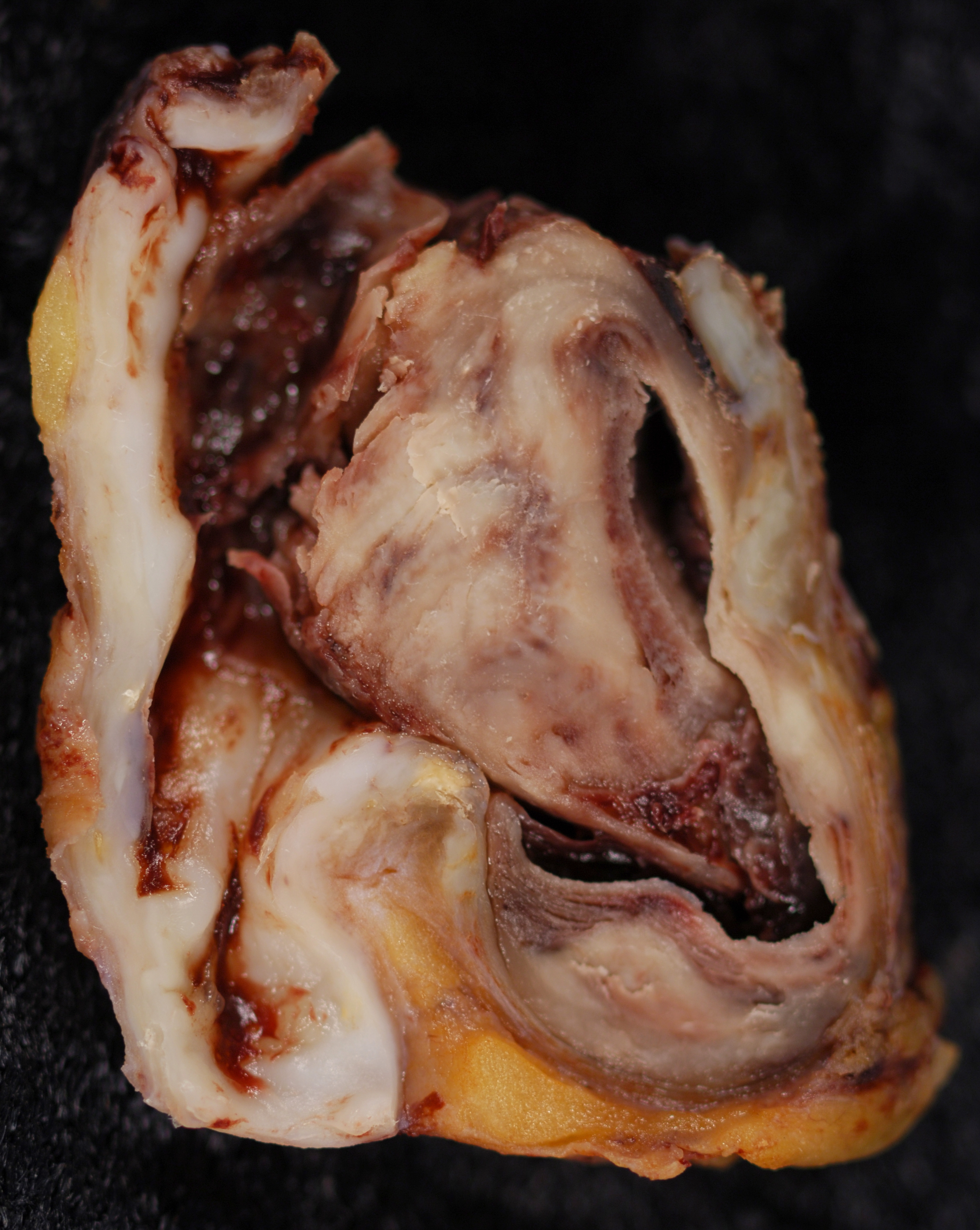 Thrombosed Aneurysm of Arteriovenous Fistula Pathological and histological images courtesy of Ed Uthman at flickr.